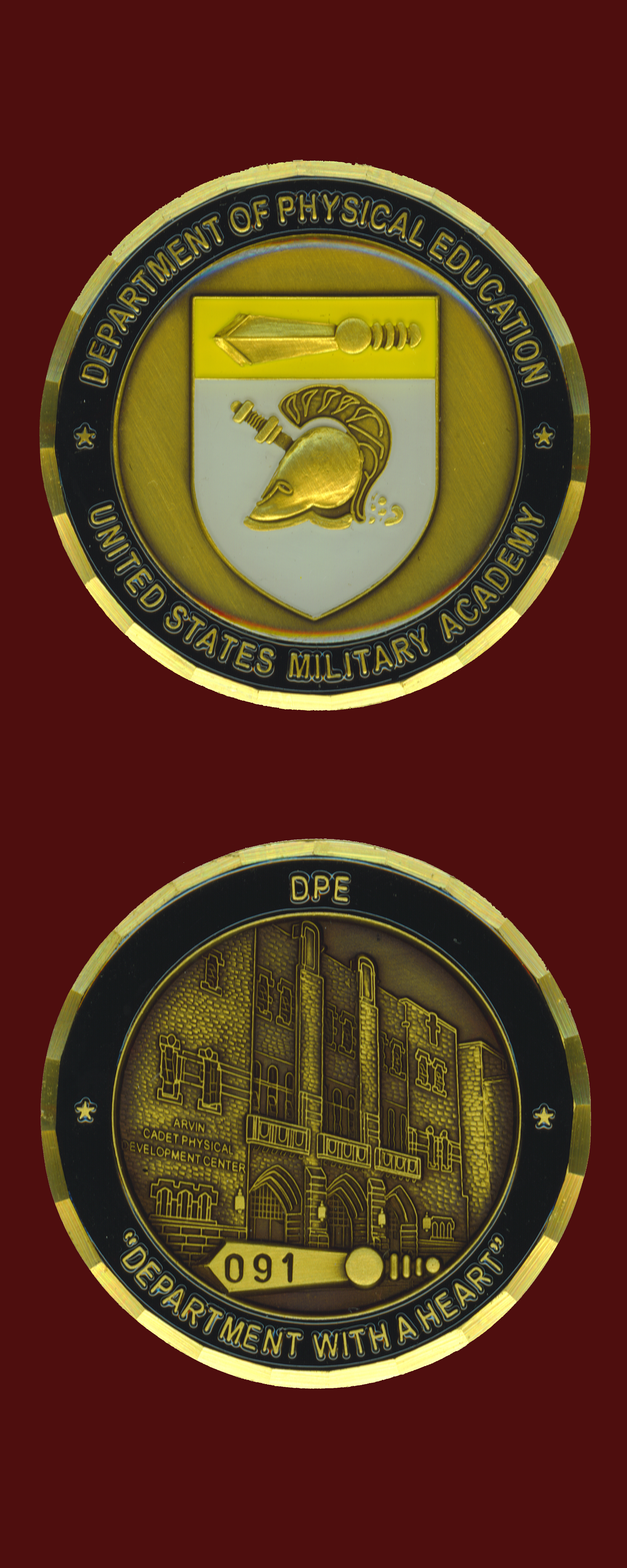 The unit coin for the Department of Physical Education at West Point